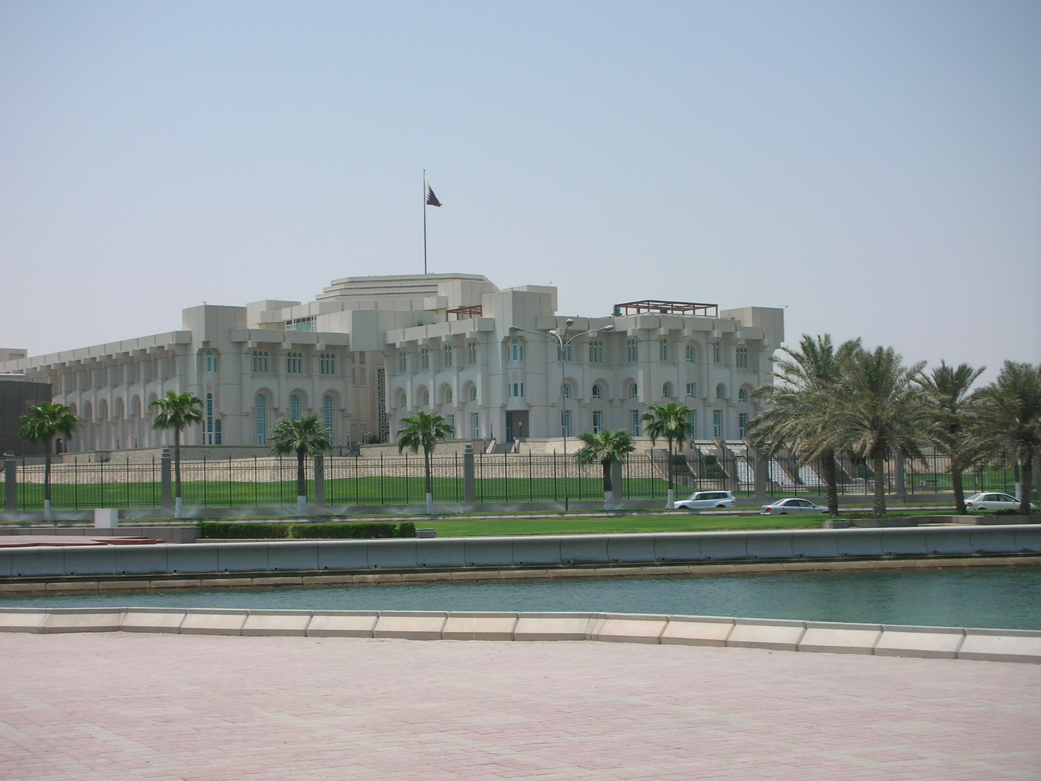 The palace viewed from the Corniche.